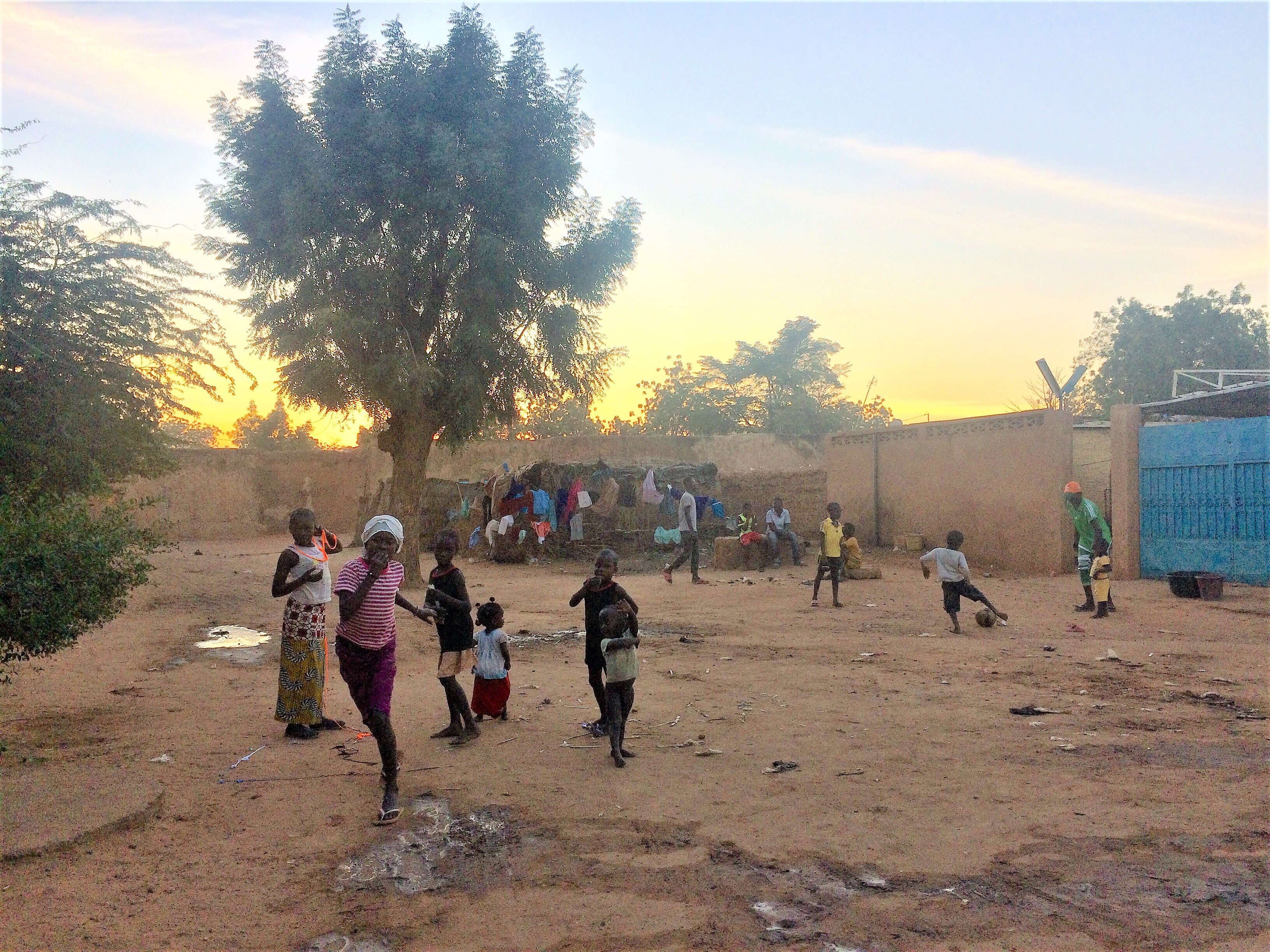 Nigerien Children playing in the street at sunset in Rue YN-60 (Yantala Nouveau neighborhood, Niamey, Niger)